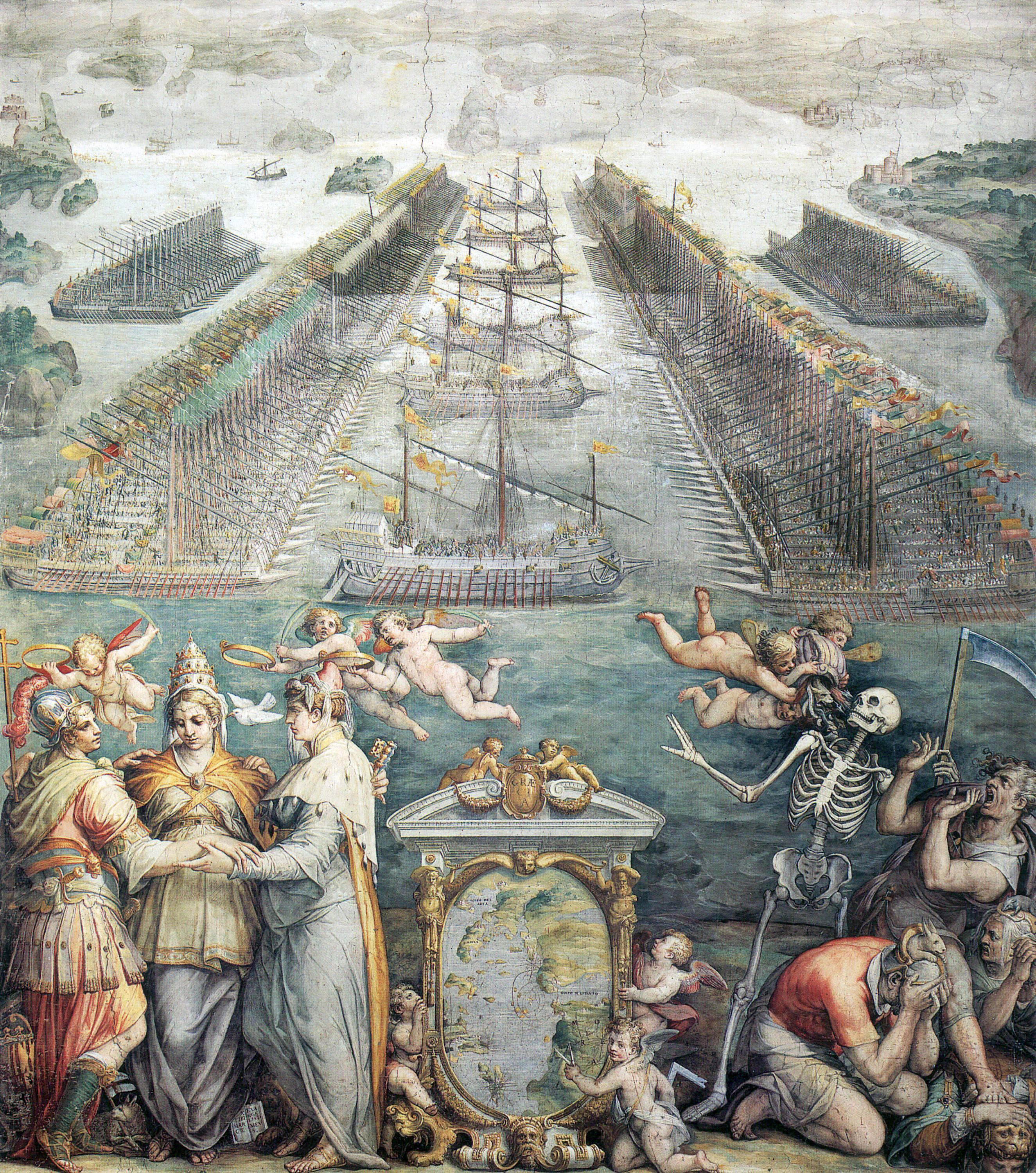 The Battle of Lepanto. The combined Christian navel forces (Holy League) of Spain, Venice, and the Papacy defeated the Turkish fleet at Lepanto, October 7, 1571. Vasari was commissioned by Pope Pius to commemorate the event in the Sala Regia in the Vatican. The foreground includes an allegorical representation of the three Christian powers.